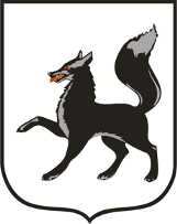 Salekhard (Yamalo-Nenets Autonomous Okrug), coat of arms.